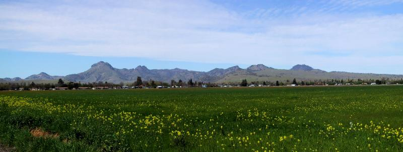 According to the Association of International Mountain Ranges, the Sutter Buttes is the smallest mountain range in the world. The Sutter Buttes in Northern California. Photograph by Brian C. Stanford.